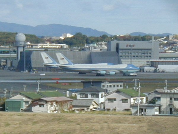 VC-25 as the Airforce 1；Two VC-25As fly in pair when the US President is in the plane.